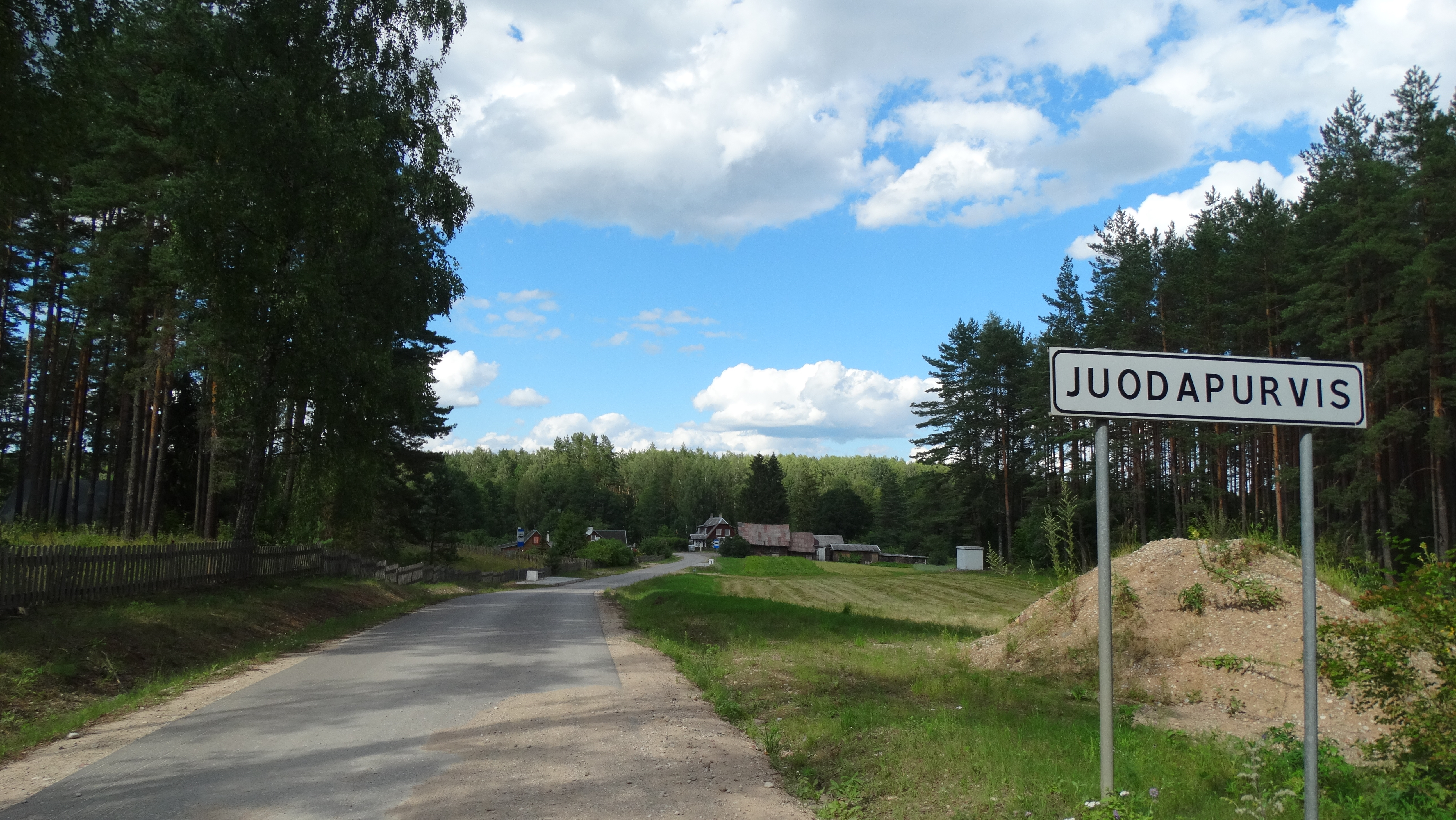 Juodapurvis, Švenčionys district, Lithuania